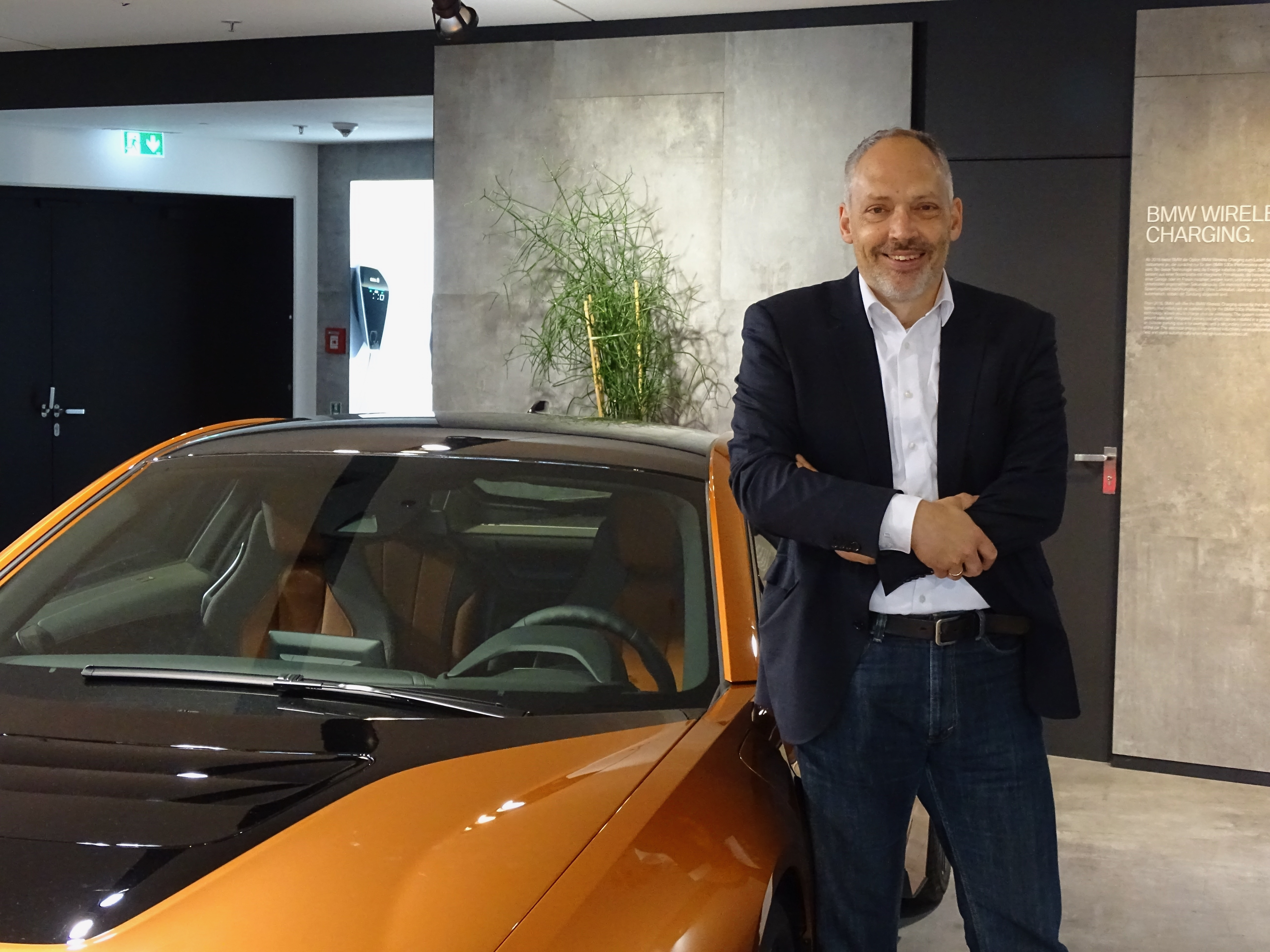 Julian Weber at BMW Welt Munich, Germany